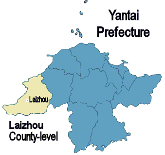 Map of Yantai Prefecture showing area of Laizhou municipality and location of Laizhou city.